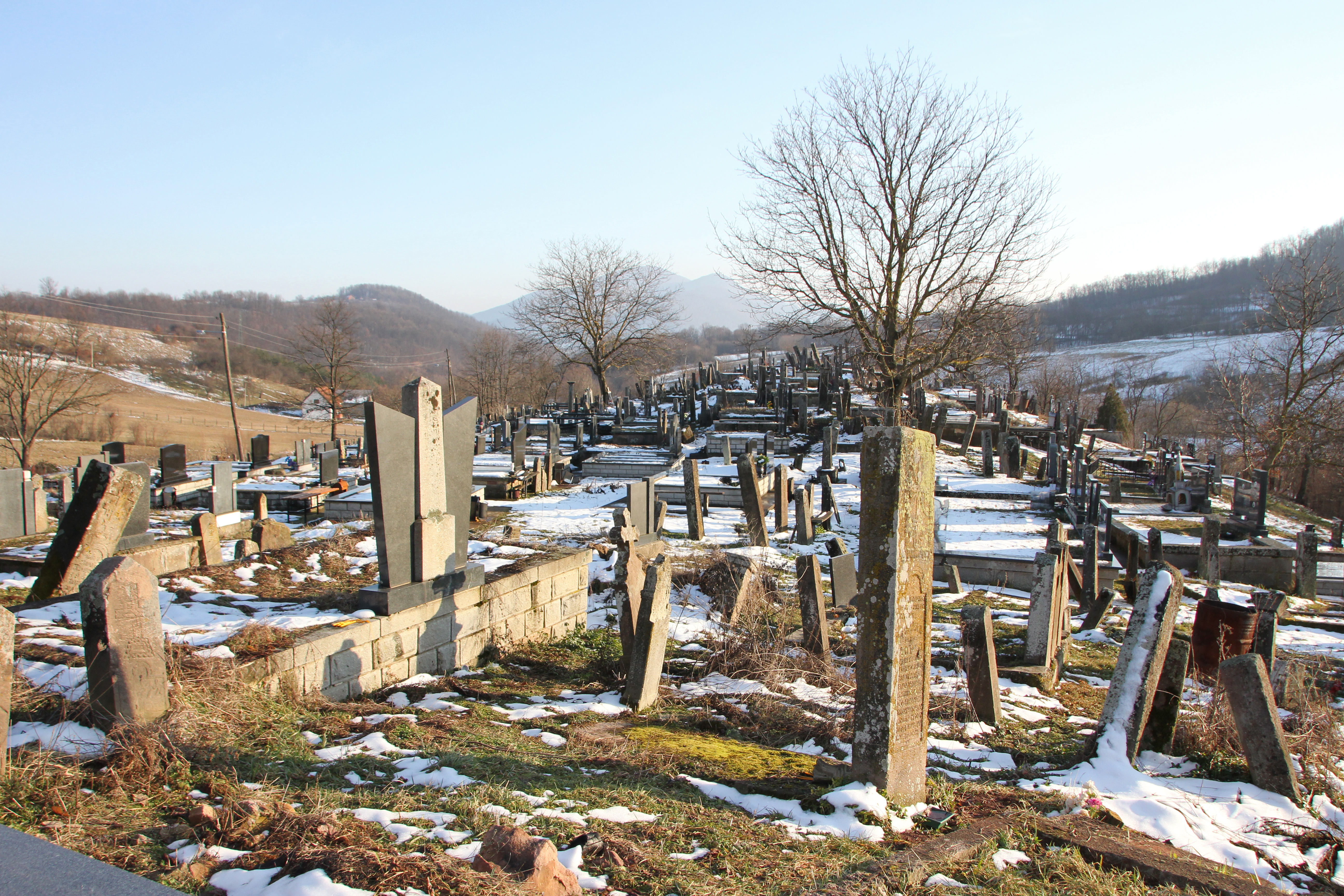 Old gravestones at the cemetery in the village of Brusnica (the municipality of Gornji Milanovac), Serbia.